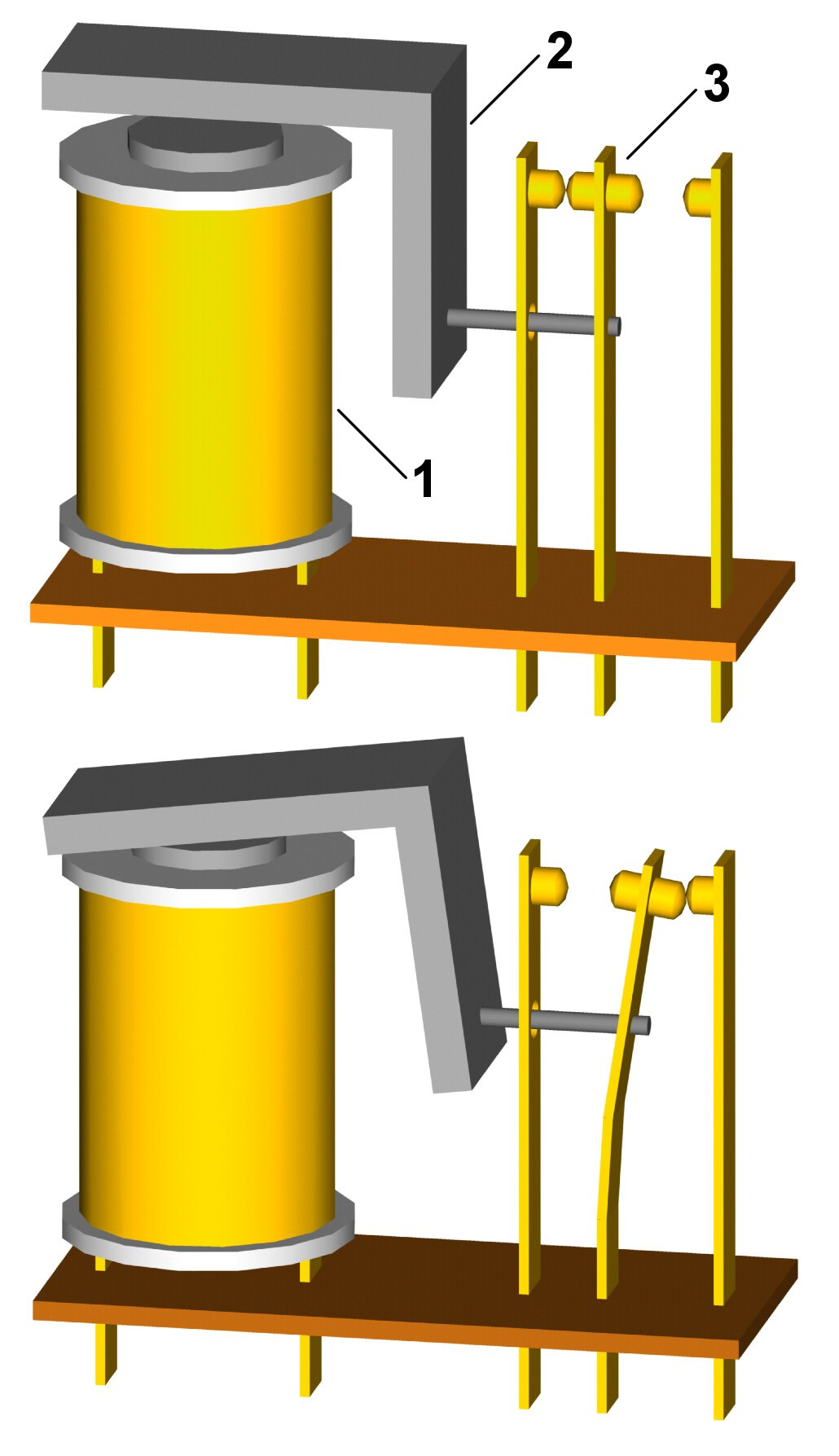 Relay principle: 1. Coil, 2. Armature, 3. Moving contact